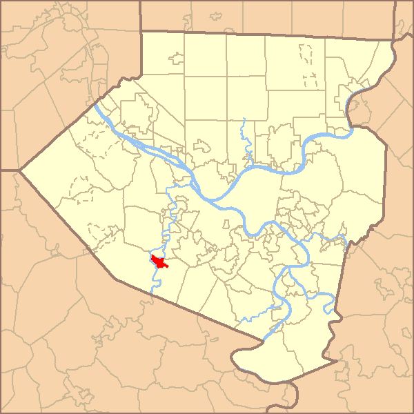 Map highlighting the municipality within Allegheny County, Pennsylvania.